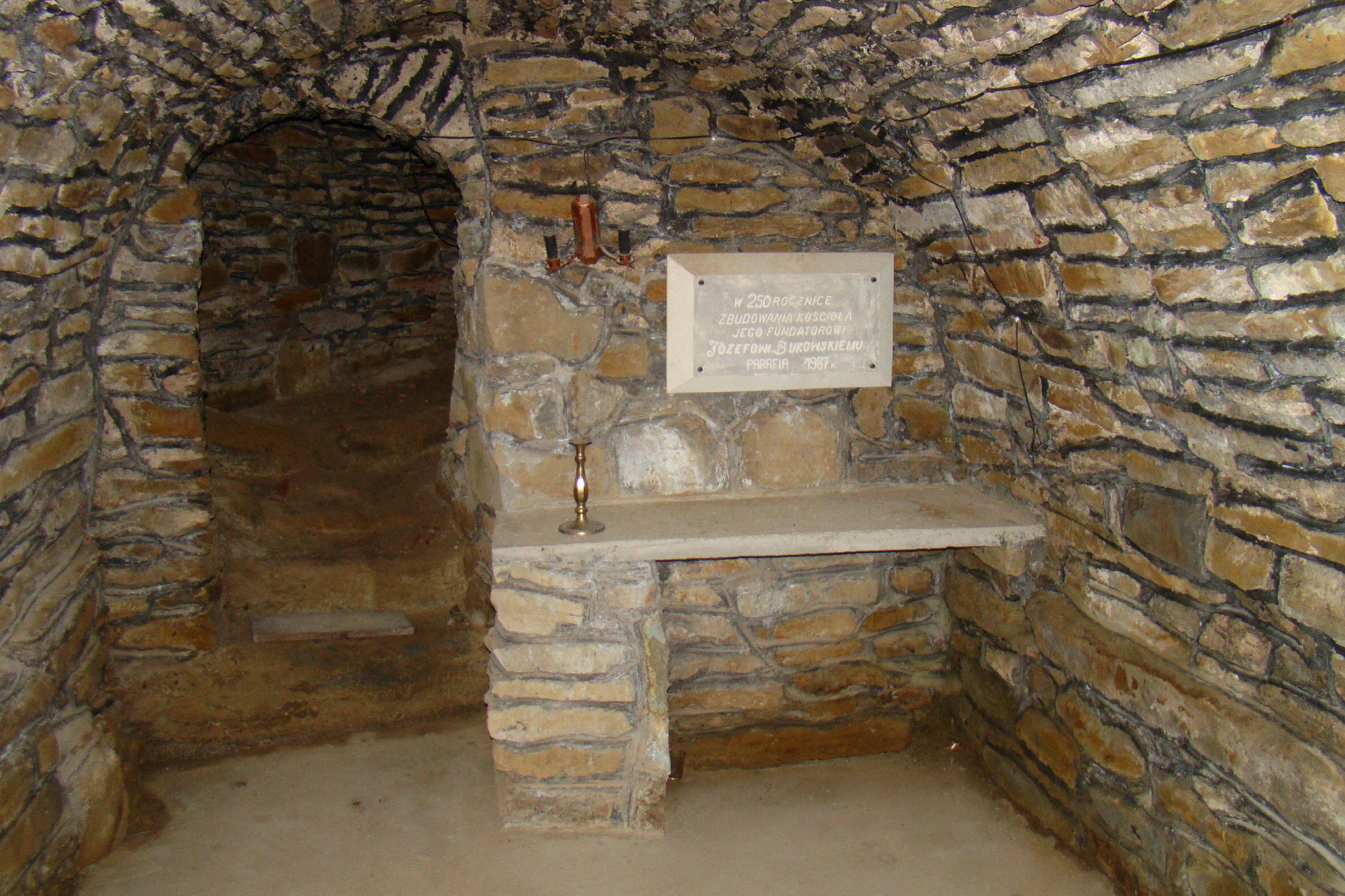 Rotmistrz Bukowski's Crypt. Church of St. Nicholas in Nowotaniec.